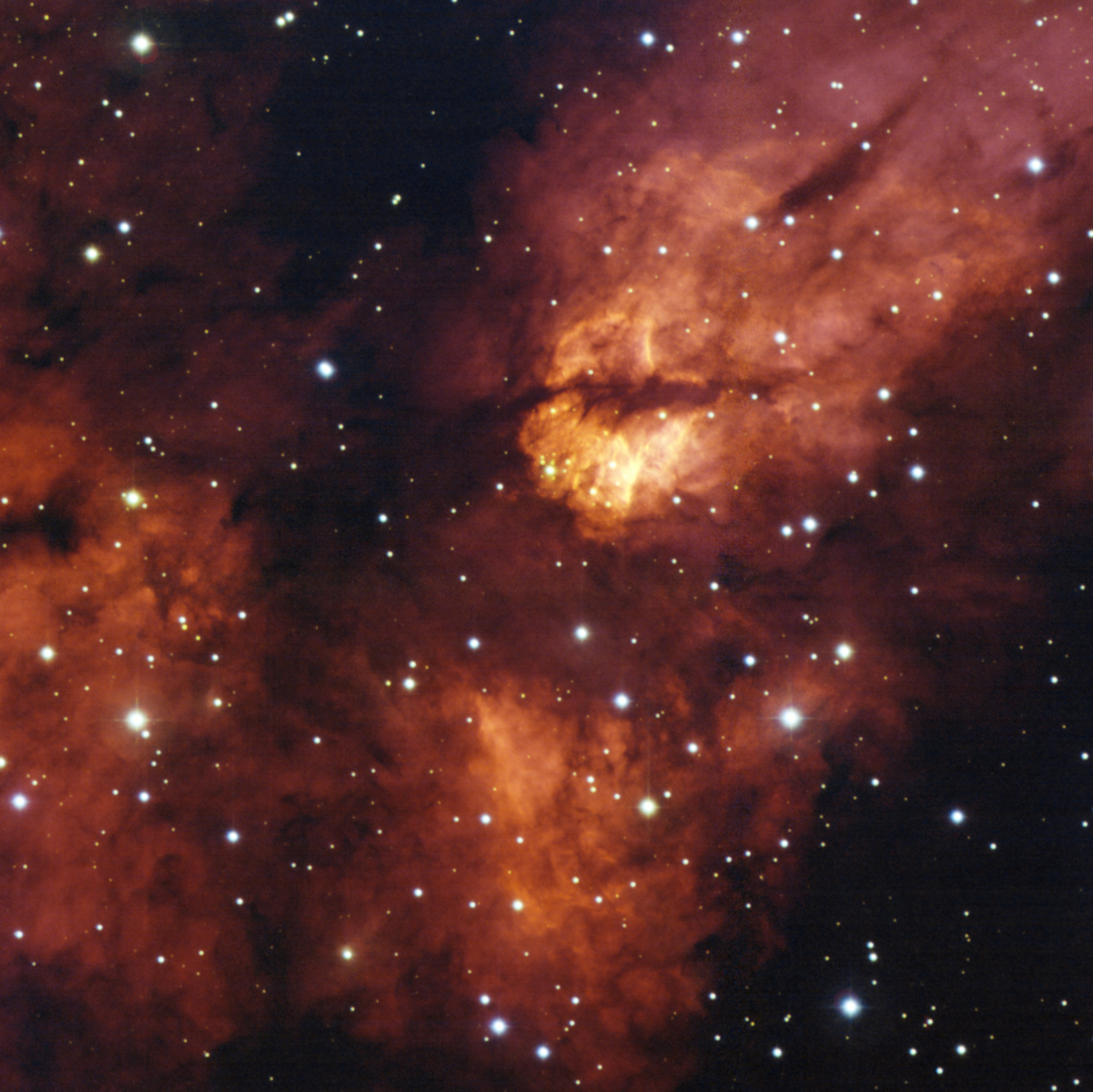 The dense star cluster RCW 38 glistens about 5500 light years away in the direction of the constellation Vela (the Sails). RCW 38 is an "embedded" cluster, in that the nascent cloud of dust and gas still envelops its stars. There, young, titanic stars bombard fledgling suns and planets with powerful winds and large amount of light, helped in their devastating task by short-lived, massive stars that explode as supernovae. In some cases, this energetic onslaught cooks away the matter that may eventually form new planetary systems. Scientists think that our own Solar System emerged from such a dramatic environment. This image was obtained with the Wide Field Imager instrument on the MPG/ESO 2.2-metre telescope at La Silla, using data collected through four filters (B, V, R and H-alpha). The field of view is about 10 arcminutes.